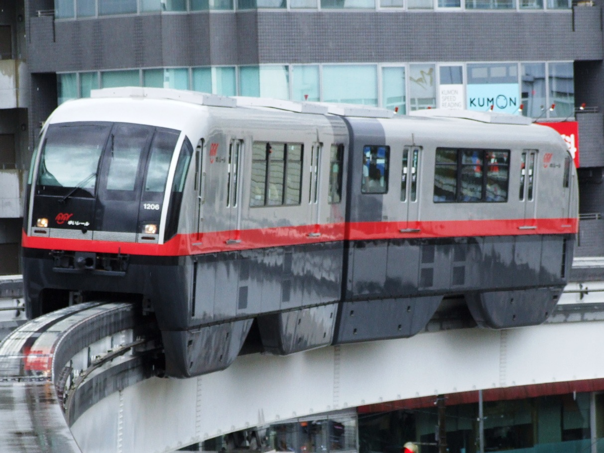 Okinawa Monorail 1000 series, number 1206+1106.